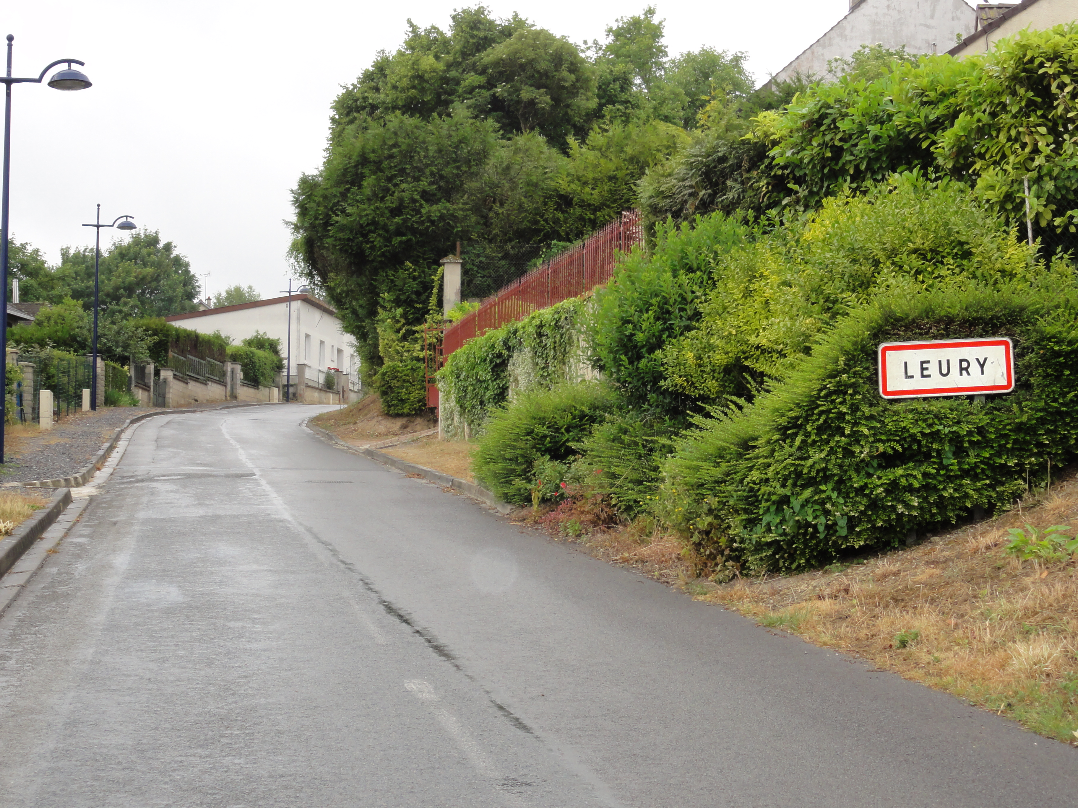 Leury (Aisne) city limit sign